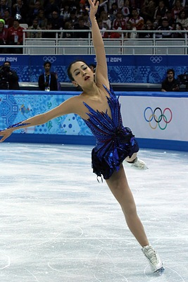 Mao Asada during her free program "Piano Concerto No. 2 " at the 2014 Winter Olympics.